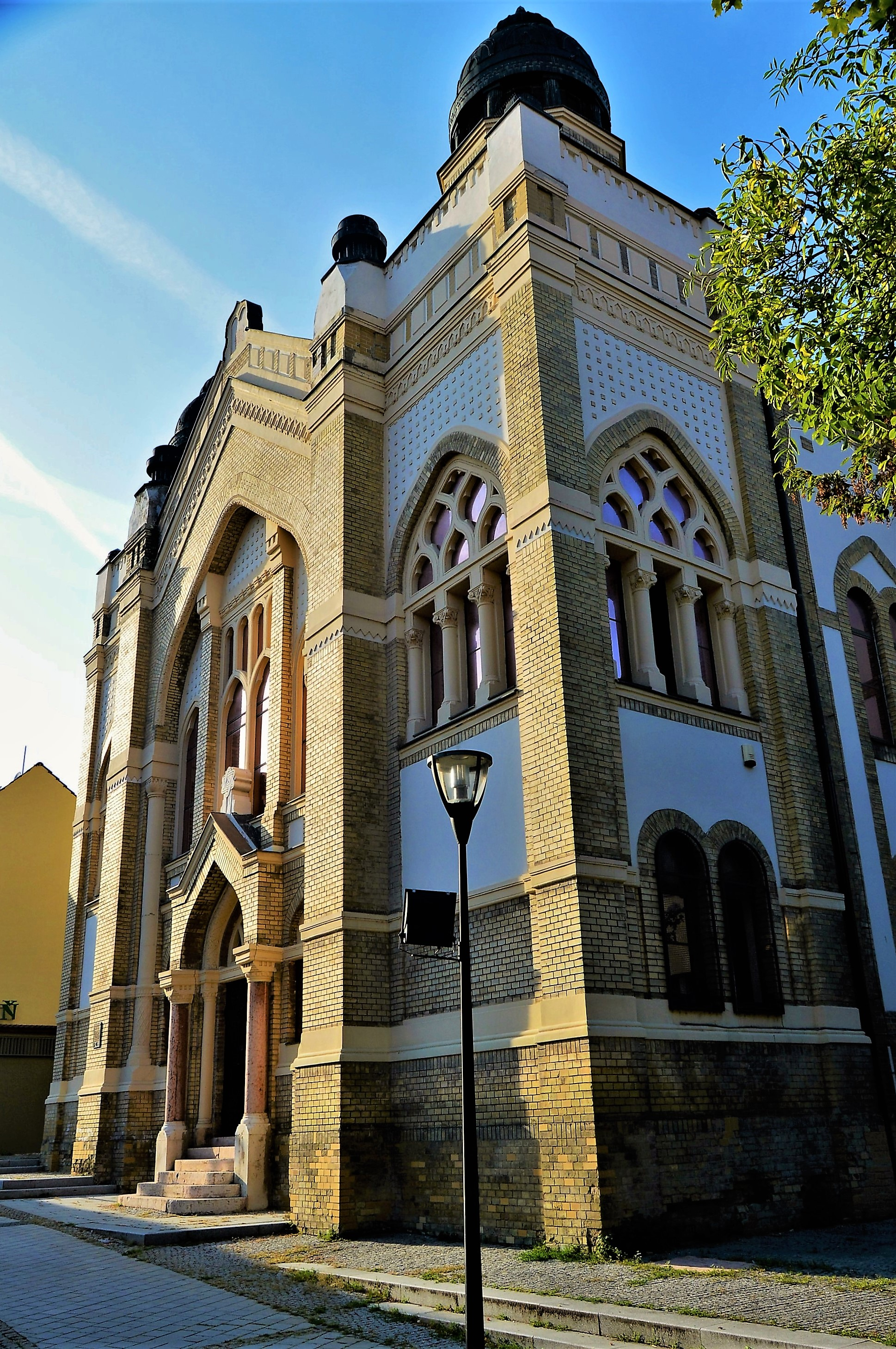 Synagogue in Nitra